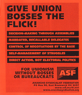 An Anarcho-Syndicalist Federation flyer opposing trade unionism